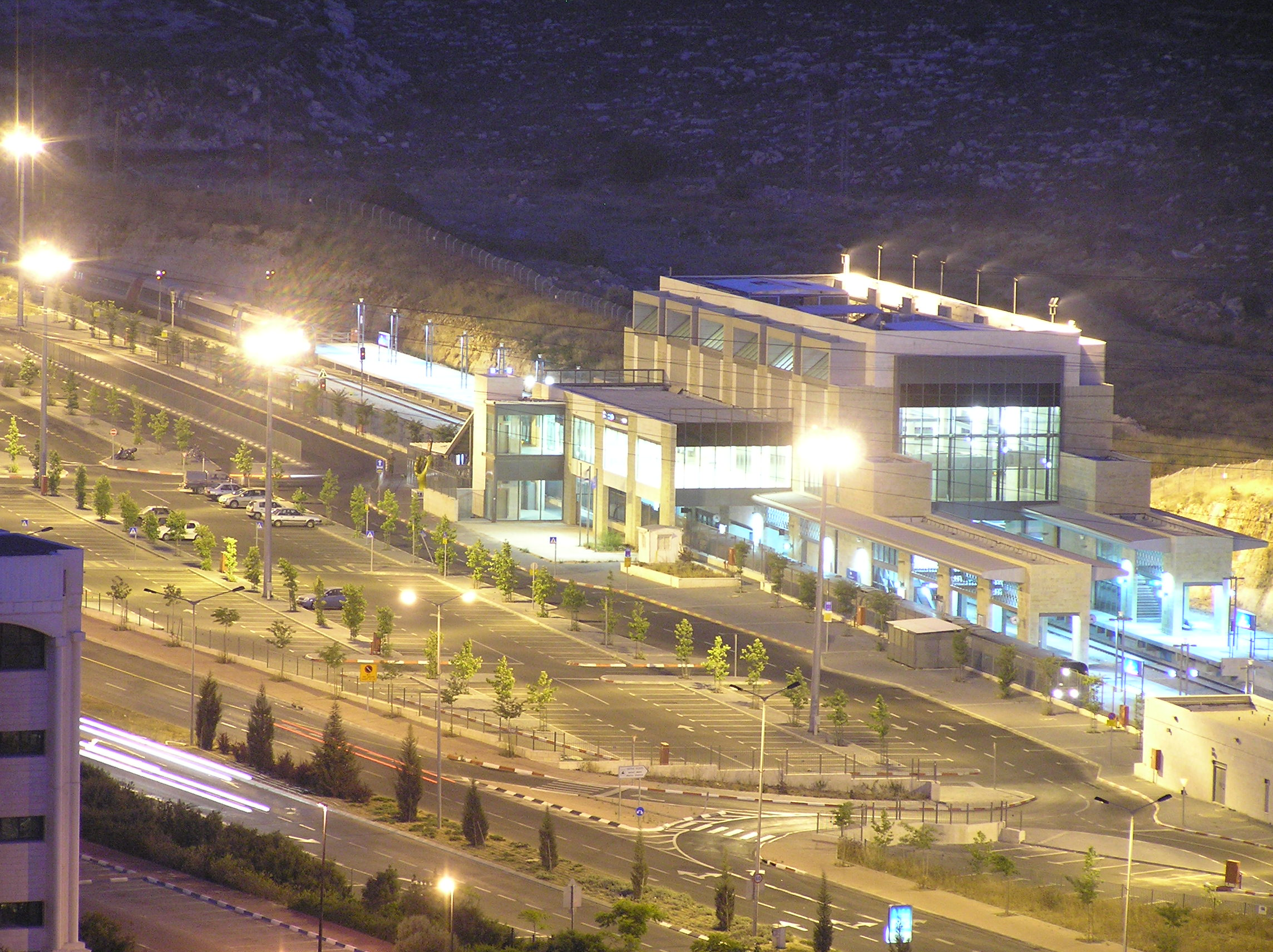 Malha, Jerusalem railay station